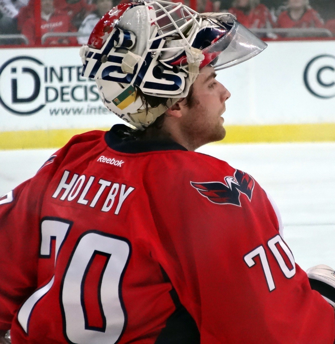 Washington Capitals goaltender Braden Holty rests during a stoppage of play in the first period of a February 3, 2013 game against the Pittsburgh Penguins at Verizon Center in Washington, D.C.